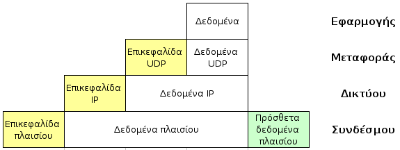 Encapsulation of application data descending through the layered TCP/IP architecture